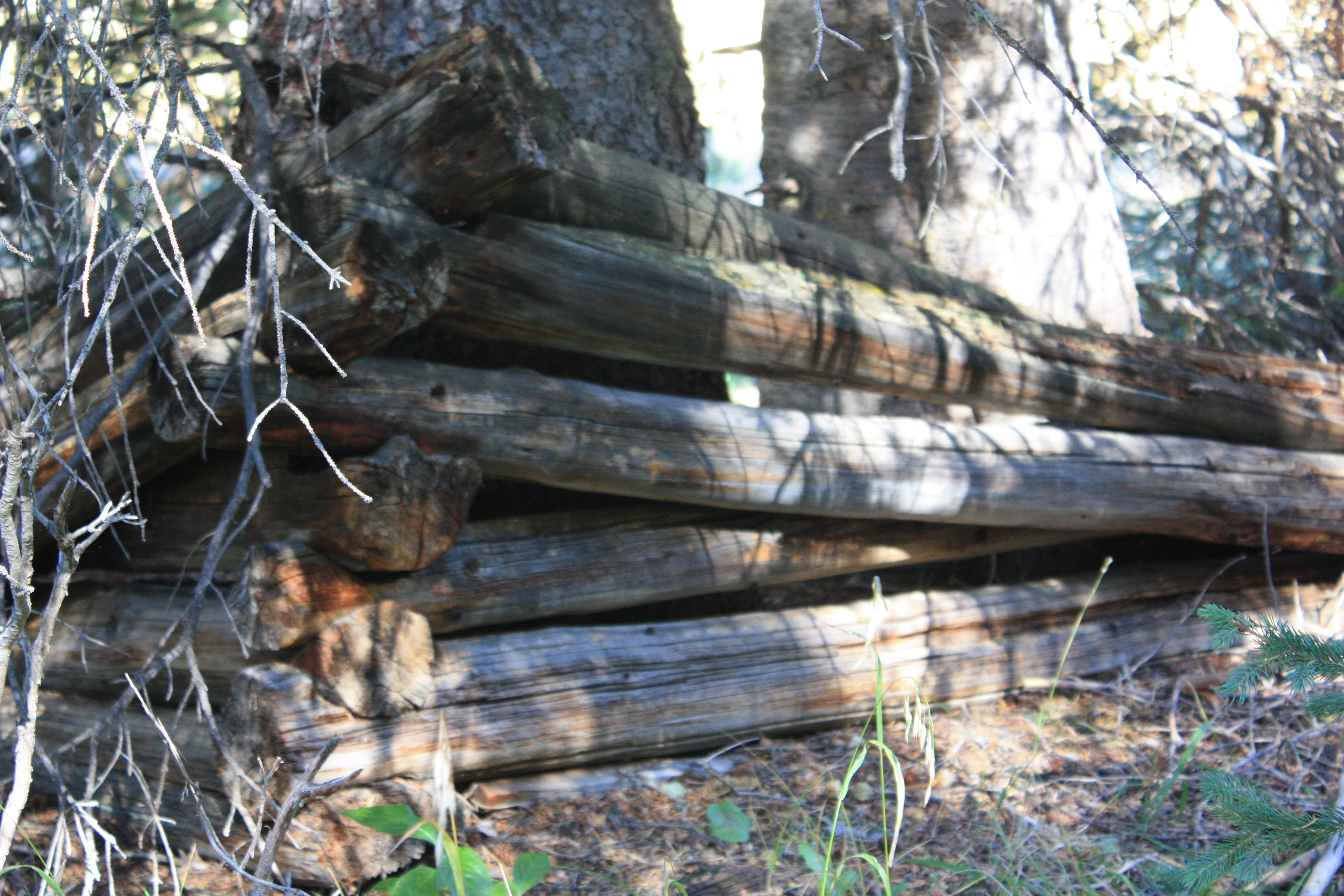 Log home remnant, Lulu City.